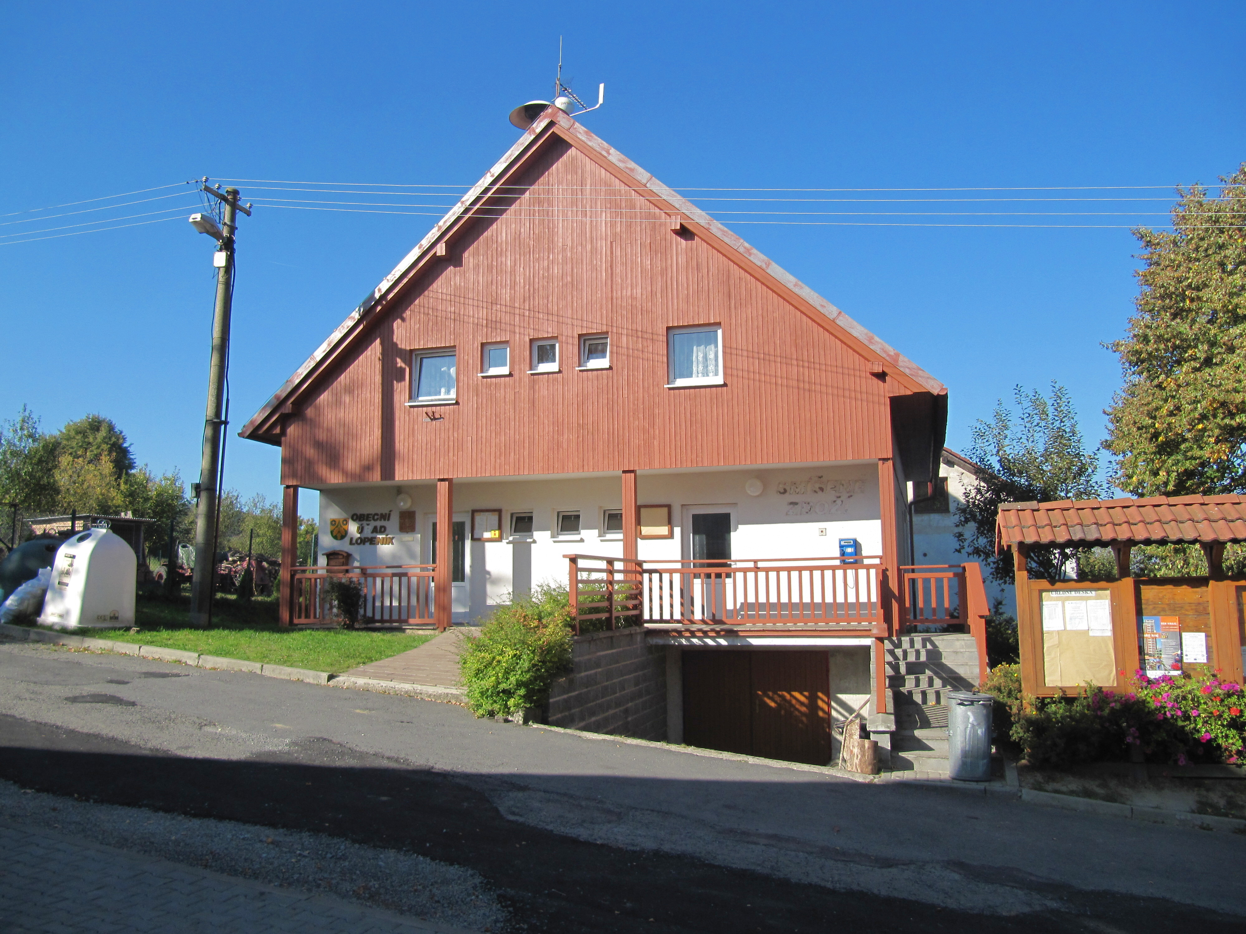 Lopeník in Uherské Hradiště District, Czech Republic. Municipal office.